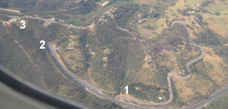 Adelaide-Crafers Highway ascending through the Heysen Tunnels (2) showing the former Devil's Elbow (1) and old Mount Barker Road winding up to Eagle on the Hill (3) above the tunnel entrance.